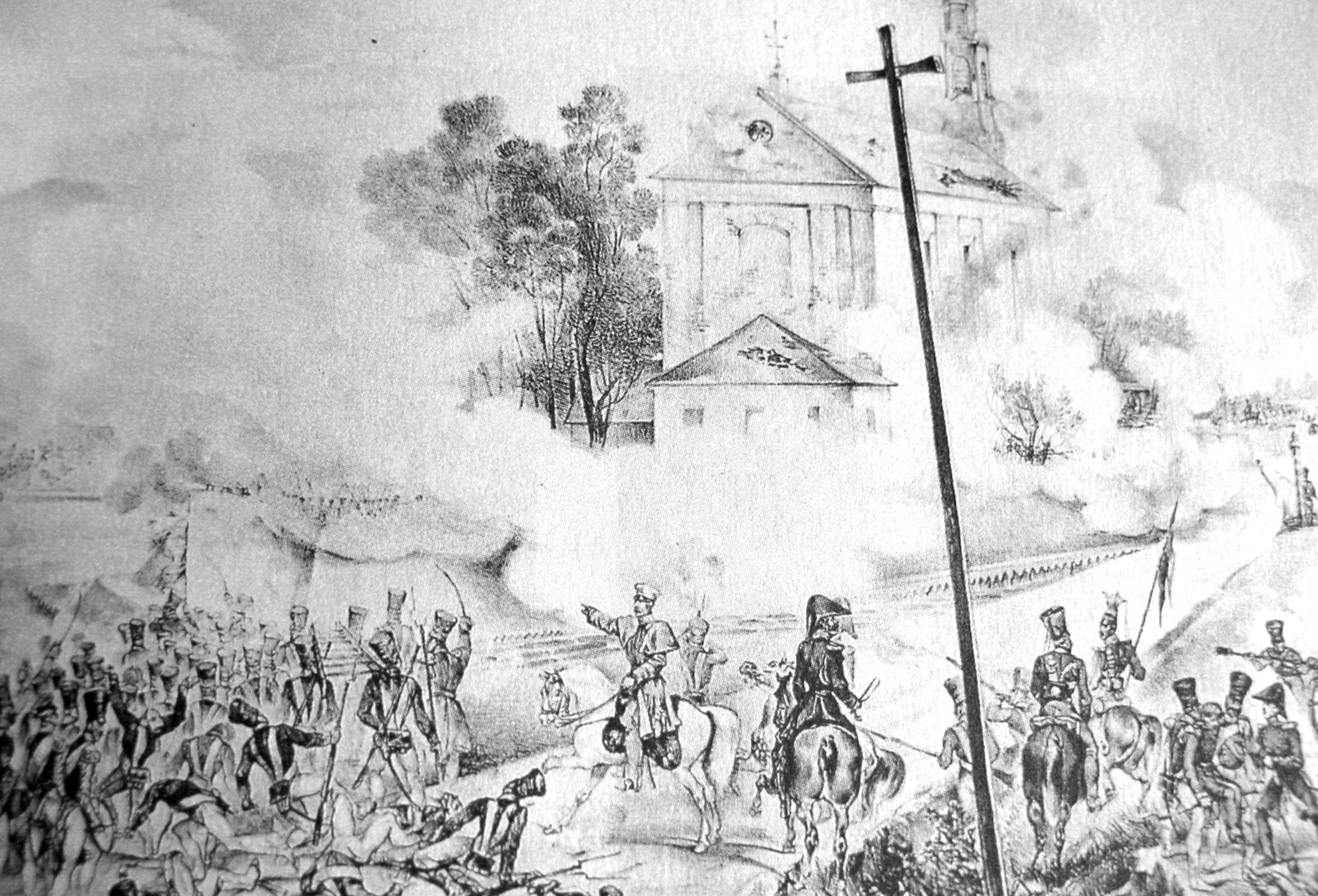 Russian assault on Wola redoubt in Warsaw 1831